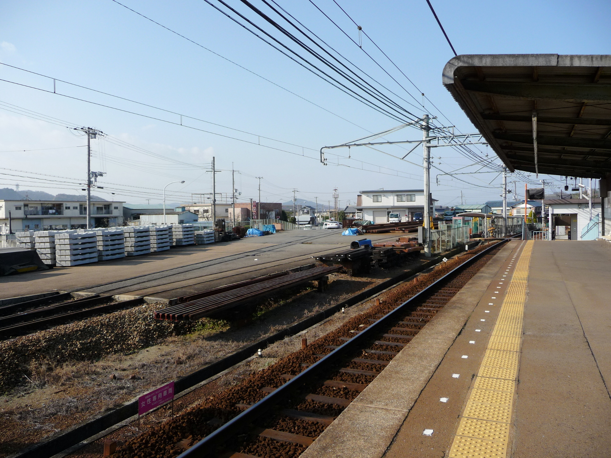 Maintenance depot at Kobe Electric Railway Ichiba Staion